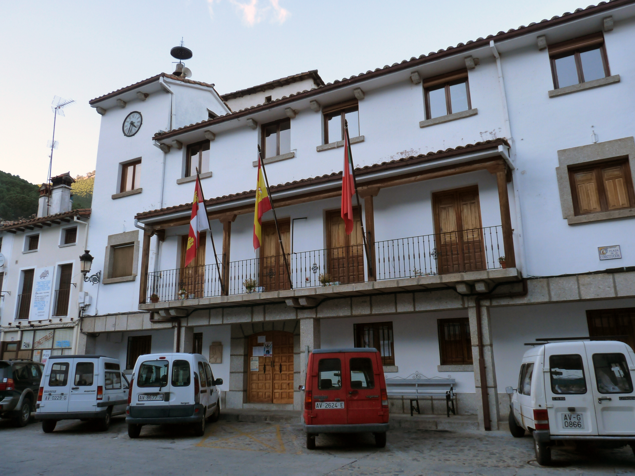 Town hall in Guisando, province of Ávila, Castile and León, Spain.